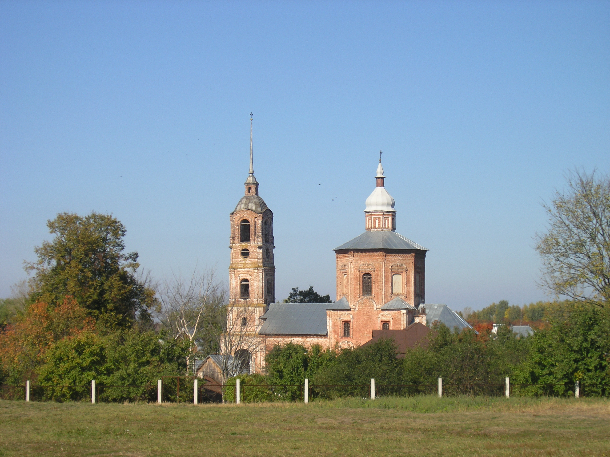 Church of Saint Boris and Saint Gleb. Suzdal, Russia.